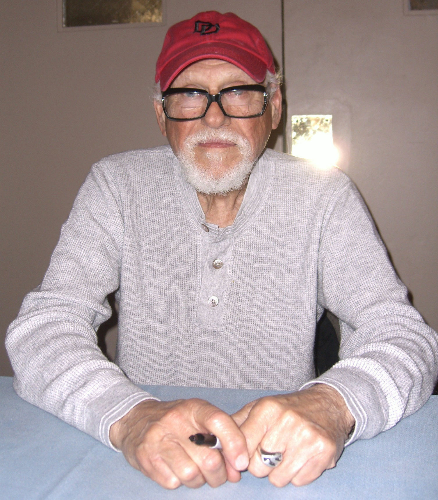 Comics creator Gene Colan at the Big Apple Summer Sizzler in Manhattan, June 13, 2009. This photo was created by Luigi Novi. It is not in the public domain, and use of this file outside of the licensing terms is a copyright violation.